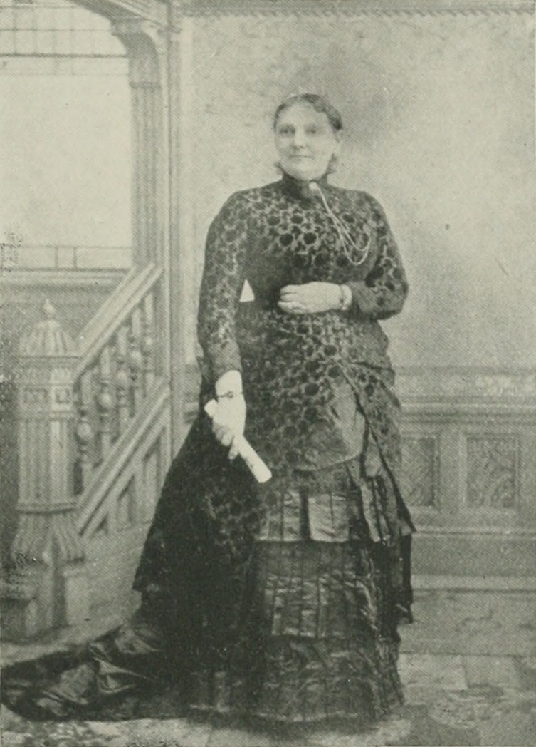 a Woman of the Century